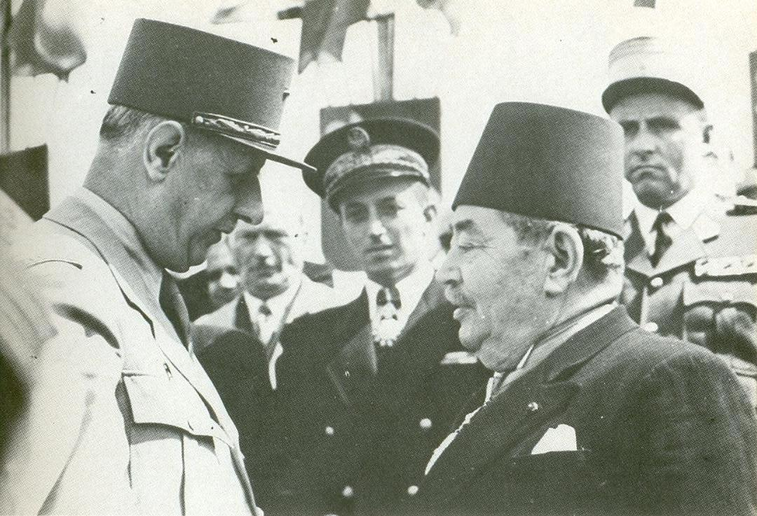 General De Gaulle (1890-1970) with Tunisian Grand Vizir Slaheddine Baccouche (1883-1959)